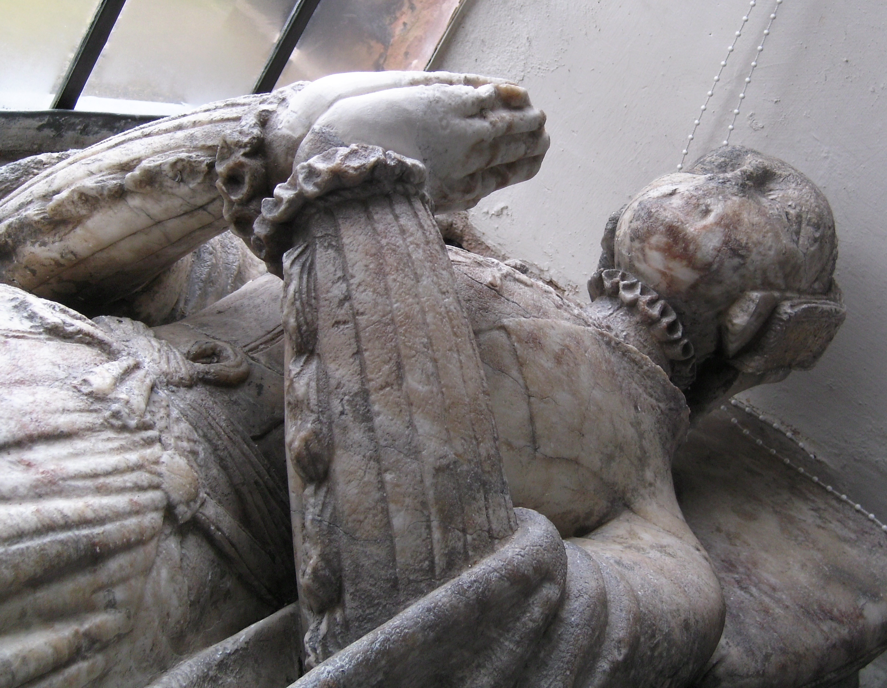 Close-up of effigy of Cassandra Giffard of Chillington, wife of Humphrey Swynnerton. Shareshill parish church, Staffordshire.